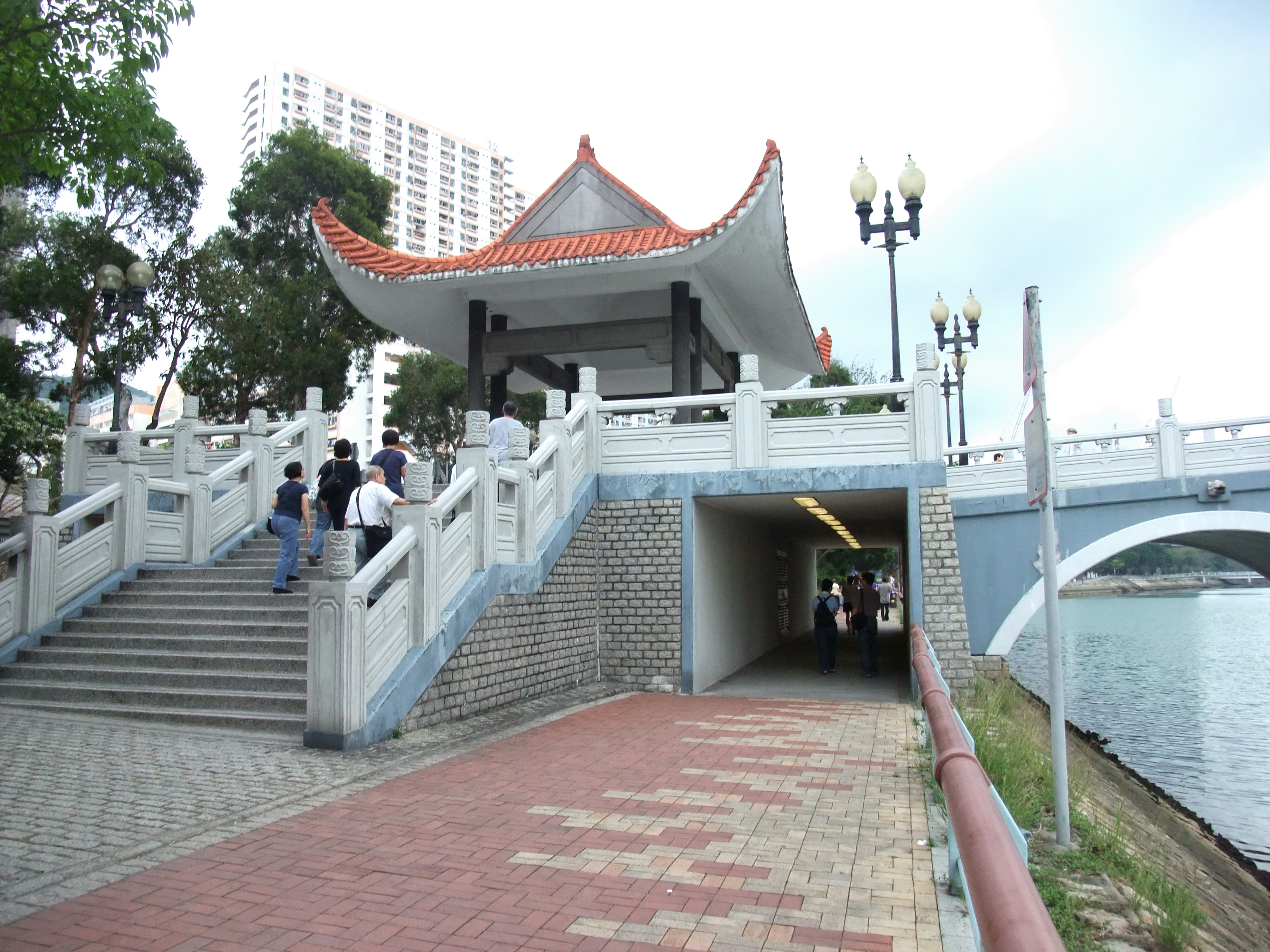 Lek Yuen Bridge Pavilion (Shatin, Hong Kong)